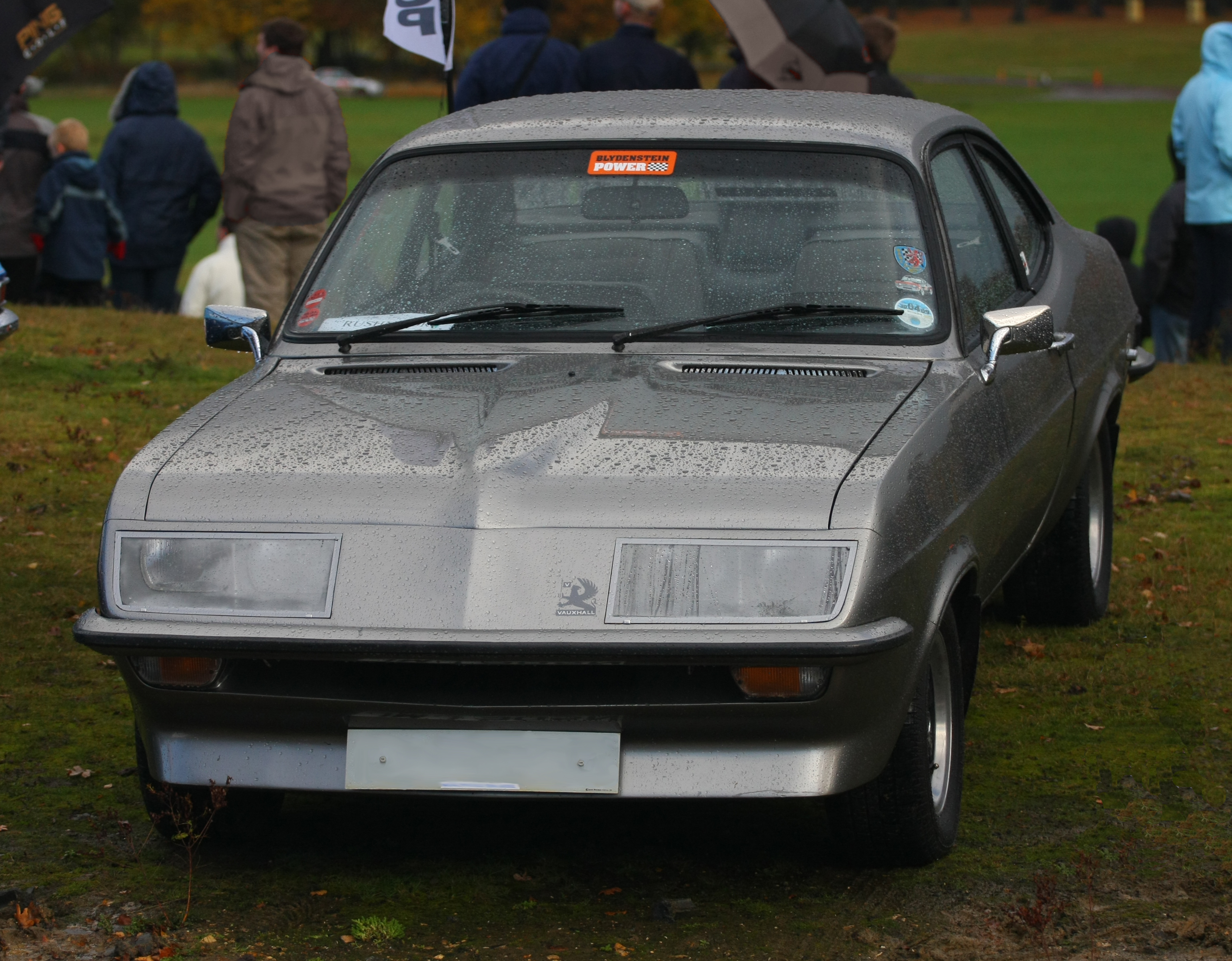 1975 Vauxhall "Droopsnoot" Firenza at the 2008 Tempest Rally, Aldershot, UK